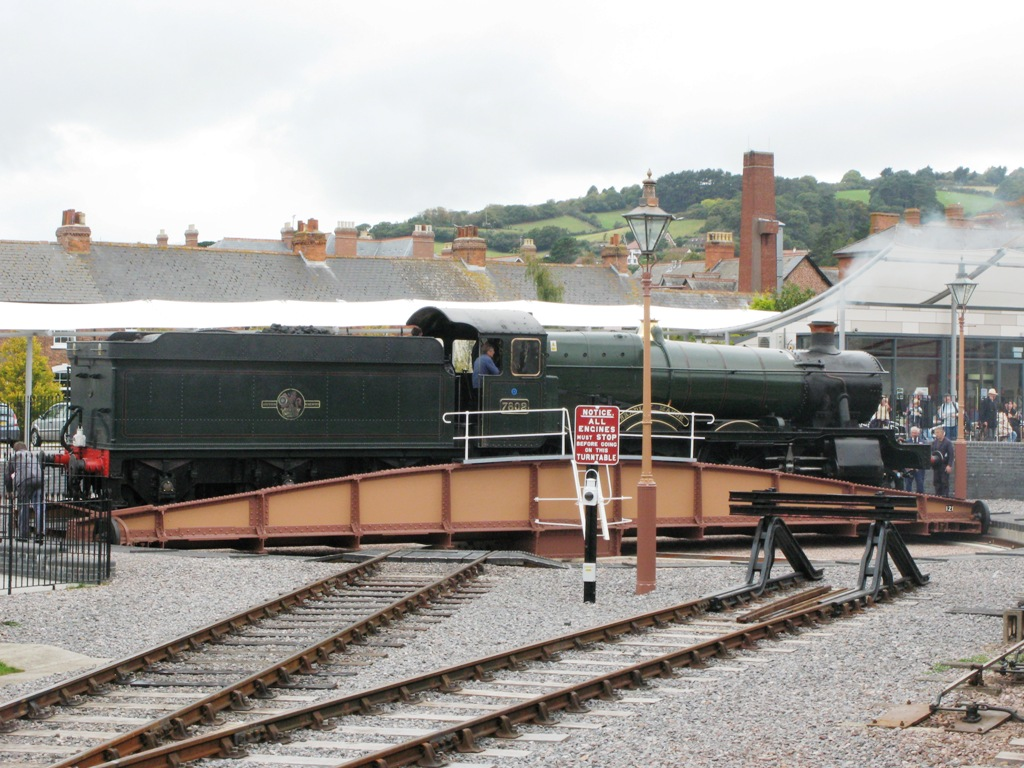 Great Western Railway 7802 Bradley Manor on the turntable at Minehead, Somerset, England.